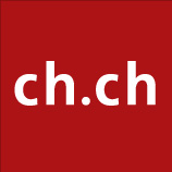 logo ch.ch – THE SWISS AUTHORITIES ONLINE